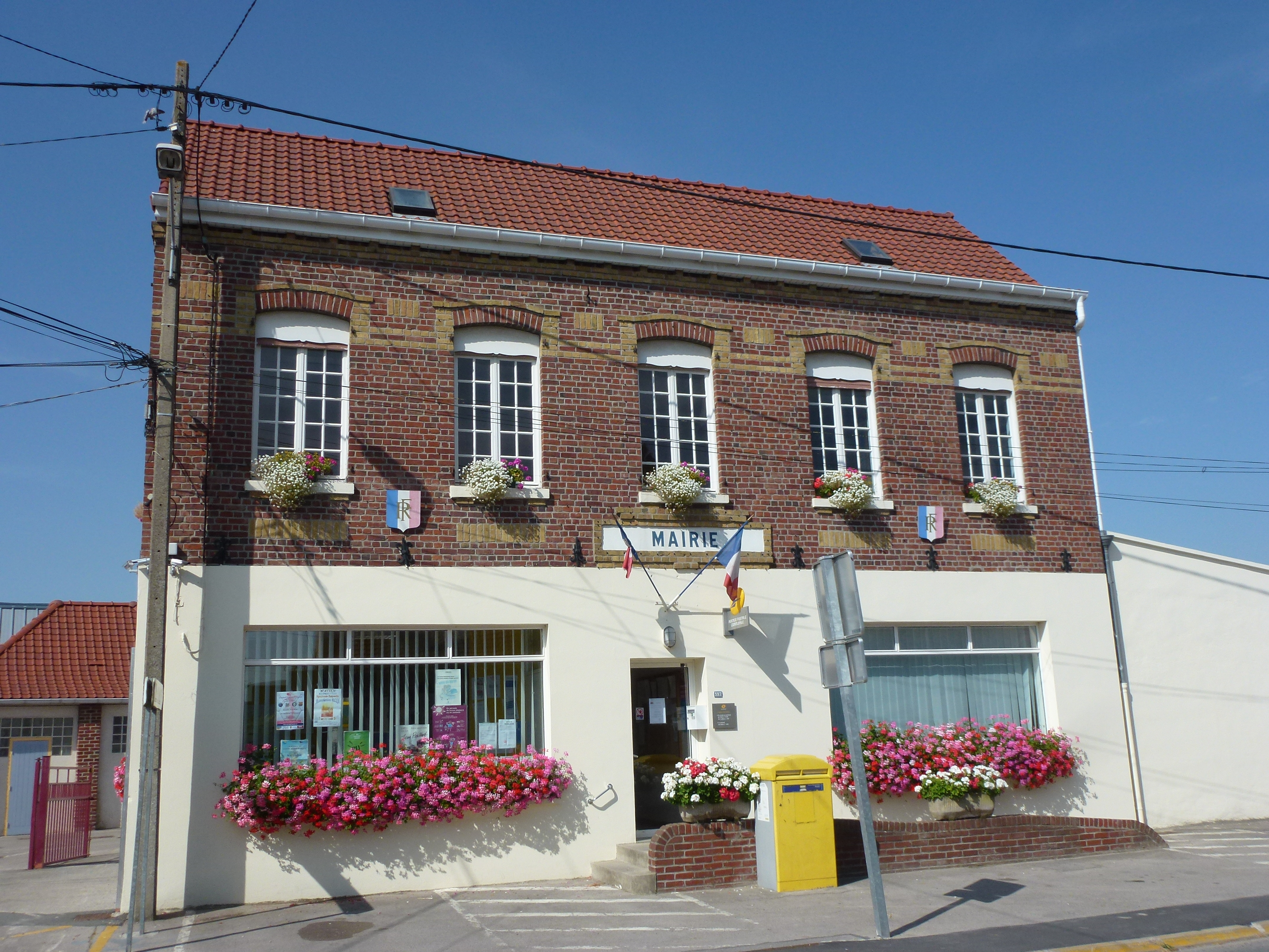 Sainte-Marie-Kerque (Pas-de-Calais) la mairie